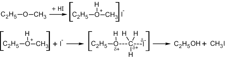 Sn2 ether